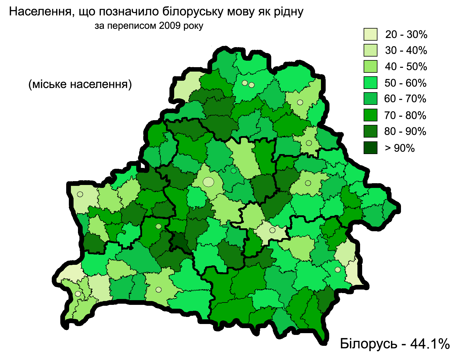 Belarusian as native language among urban population in Belarus according to the 2009 census